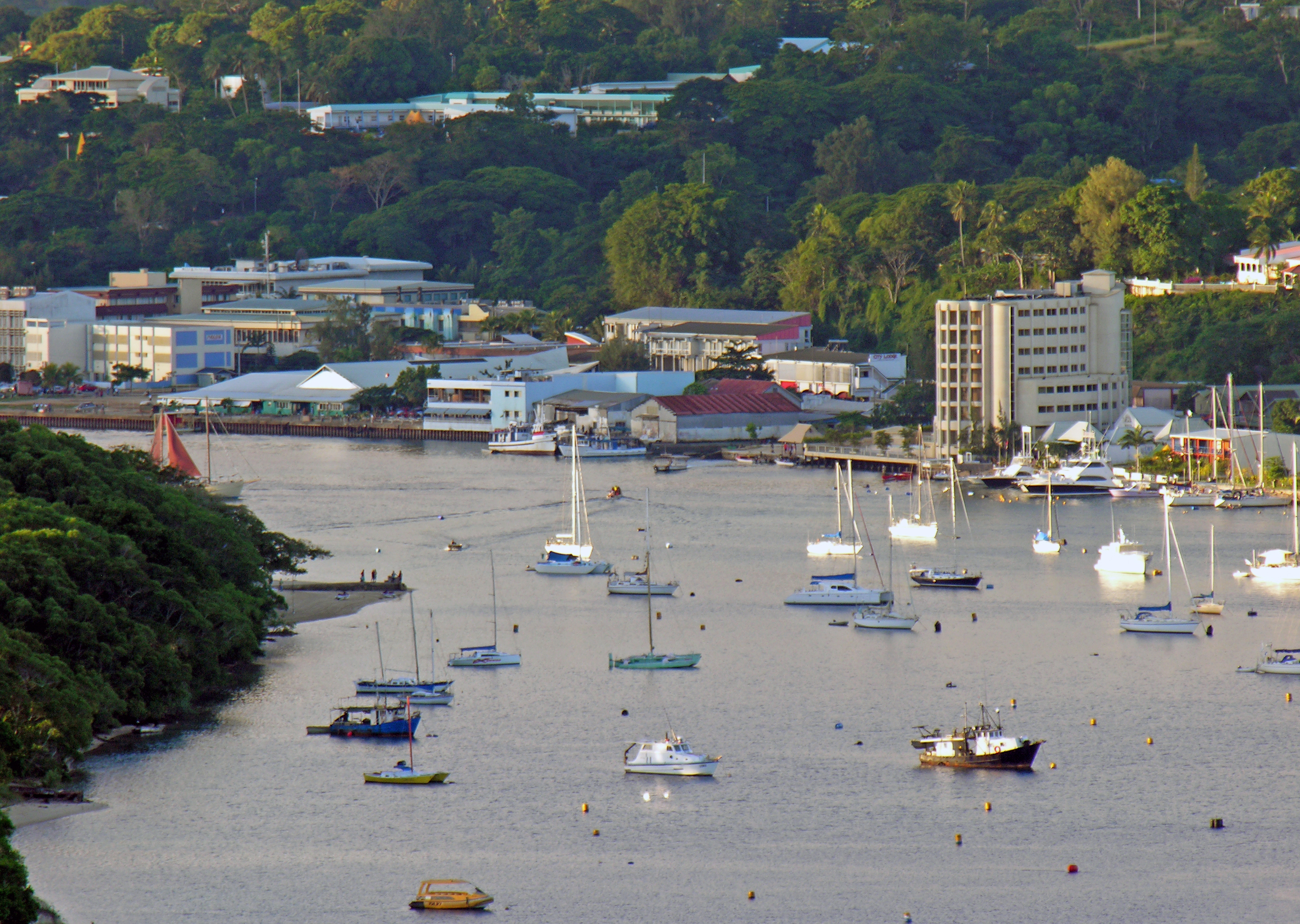 Port Vila waterfront, Vanuatu, 2 June 2006